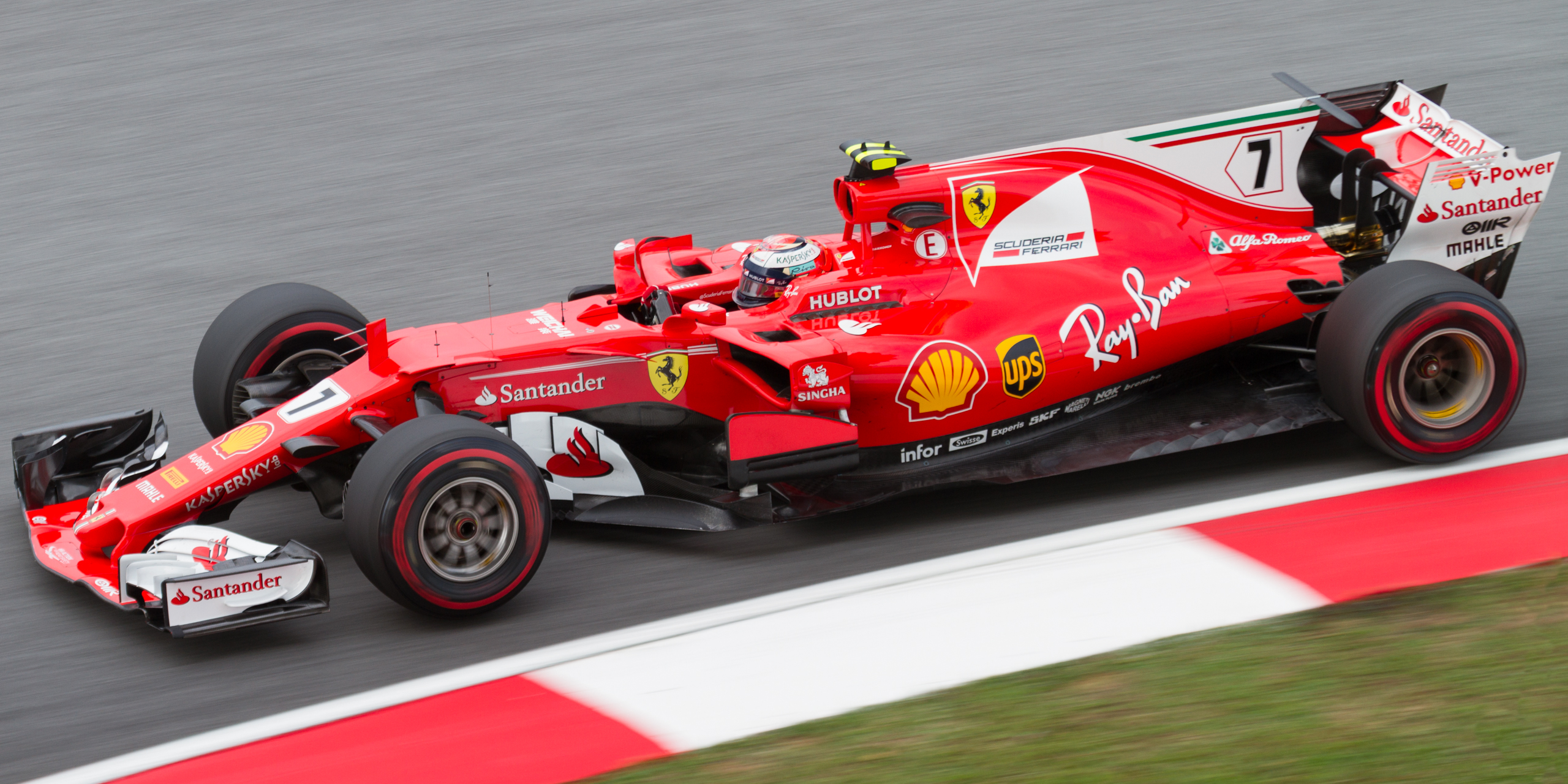 Formula One 2017 Round 15 Malaysian GP: Kimi Räikkönen (Ferrari)